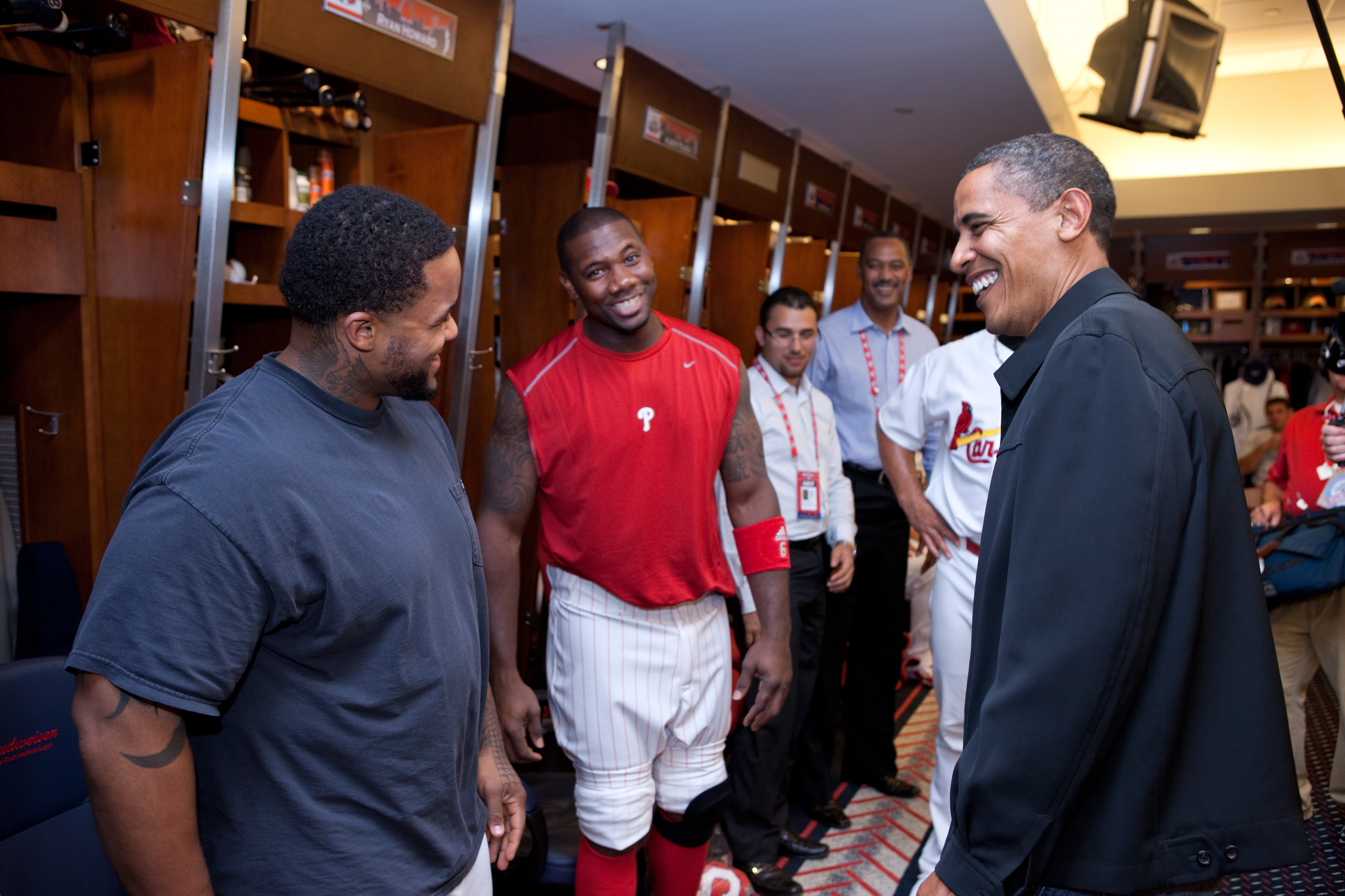 Prince Fielder (left), Ryan Howard (center) and Barack Obama